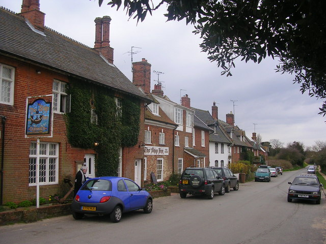 Dunwich, Suffolk This street of terraced houses, built in the 19th century, is all that remains of Dunwich. The town was one of the largest seaports in England, in the middle Ages. However coastal erosion has meant that most of it has fallen in to the sea. The coastline has advanced around half a mile inland over the past 800 years. A museum further down this street tells all about the town.